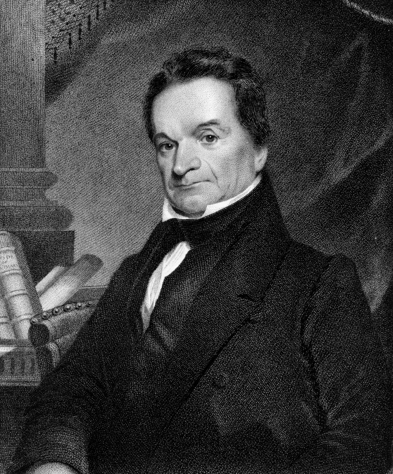 Edward Livingston (1764 - 1836) of New York, USA (picture about 1823). USA statesman - US House of Representatives (1795 to 1801), New York district attorney and later mayor (1801 to 1803). Also USA minister to France (1833 to 1835).